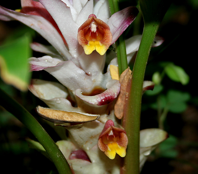 Curcuma inodora in Narsapur, Medak district, Andhra Pradesh, India.